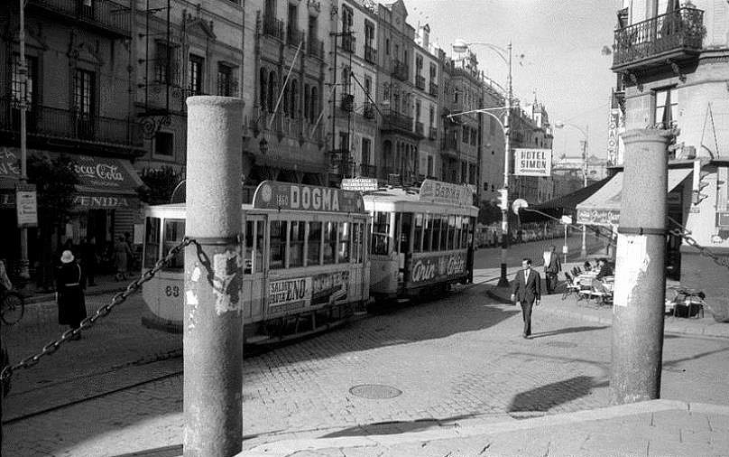 Calle Alemanes corner with Avenue de la Constitución in 1954 and the old tram.